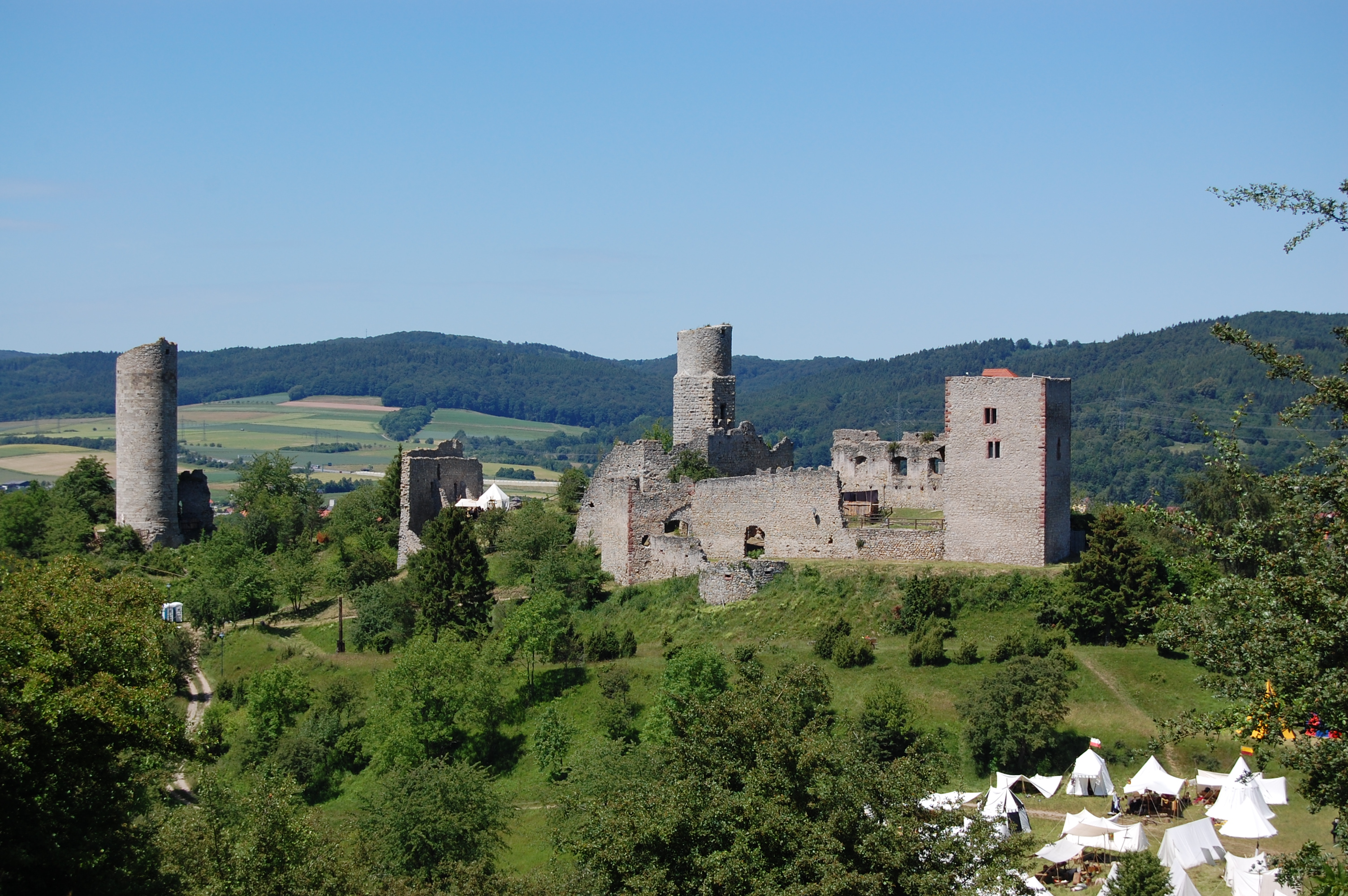 ruin Brandenburg, Thuringia, Germany, view from south